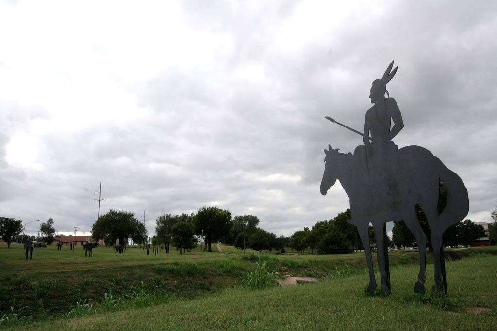 This is a photo I took myself in Government Springs Park in Enid Oklahoma that I am putting into public domain.